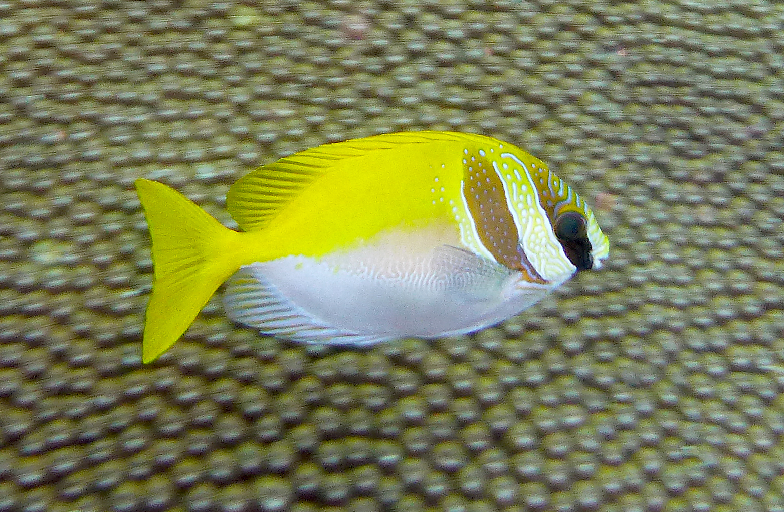 barhead spinefoot. Underwater photographs of plants and animals from diving sites around Ko Tao, Thailand.